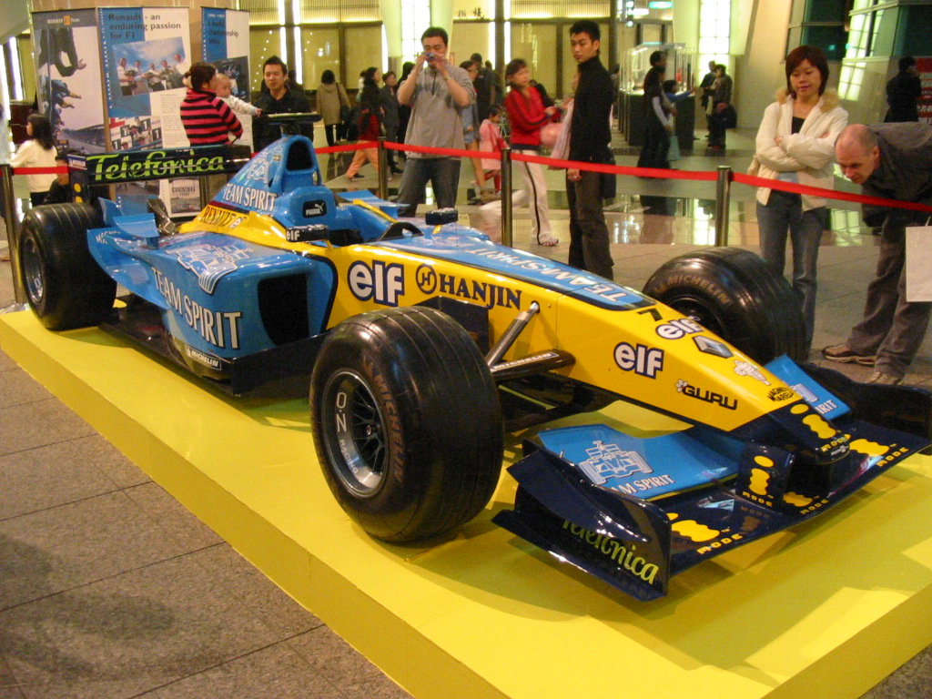 A Renault F1 racing car on display at Taipei 101